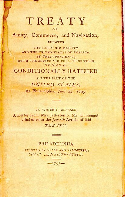 cover of text of Jay Treaty